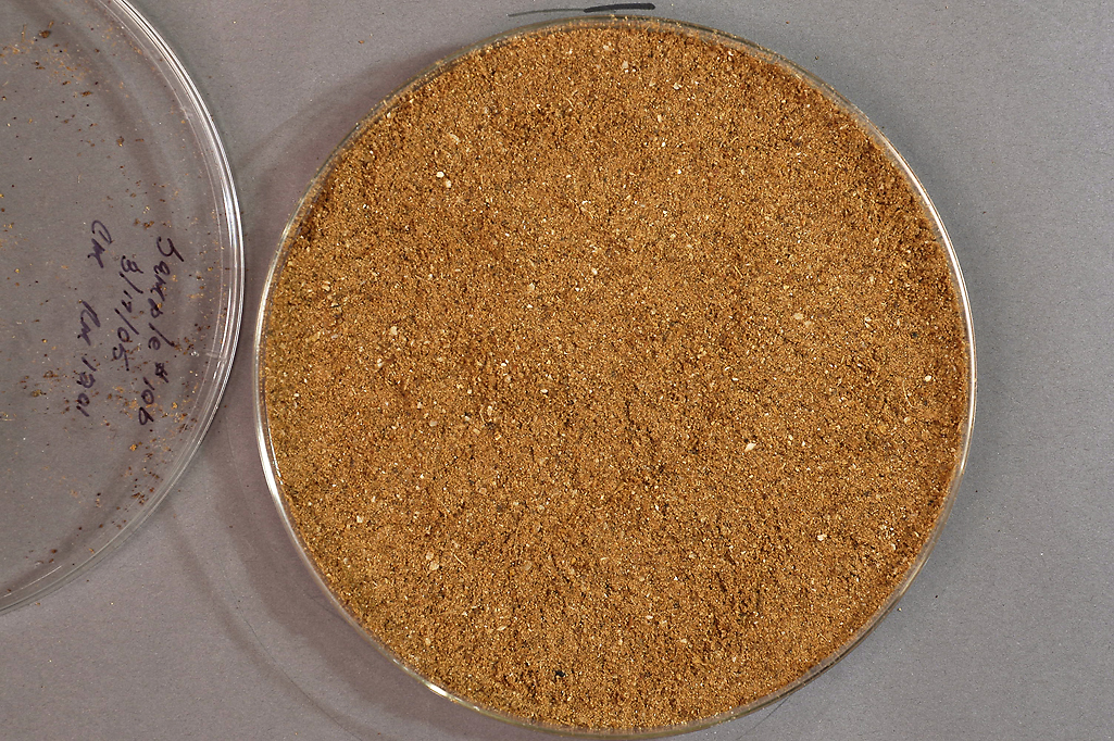 Meat and bone meal. This picture was produced by a US Federal government employee as part of official duties, and cannot be copyrighted.